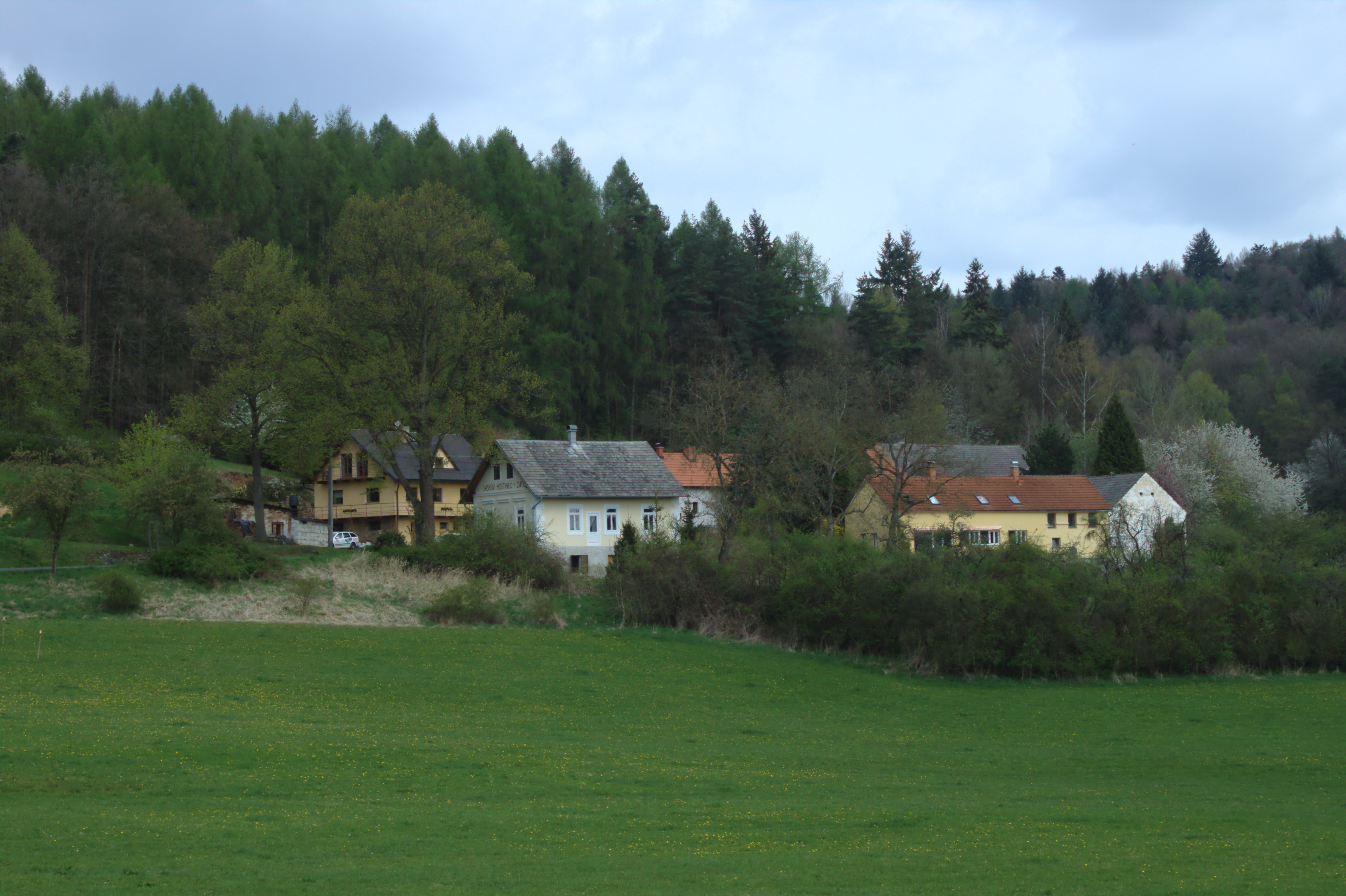 Northern part of the village of Zichov, Plzeň Region, CZ